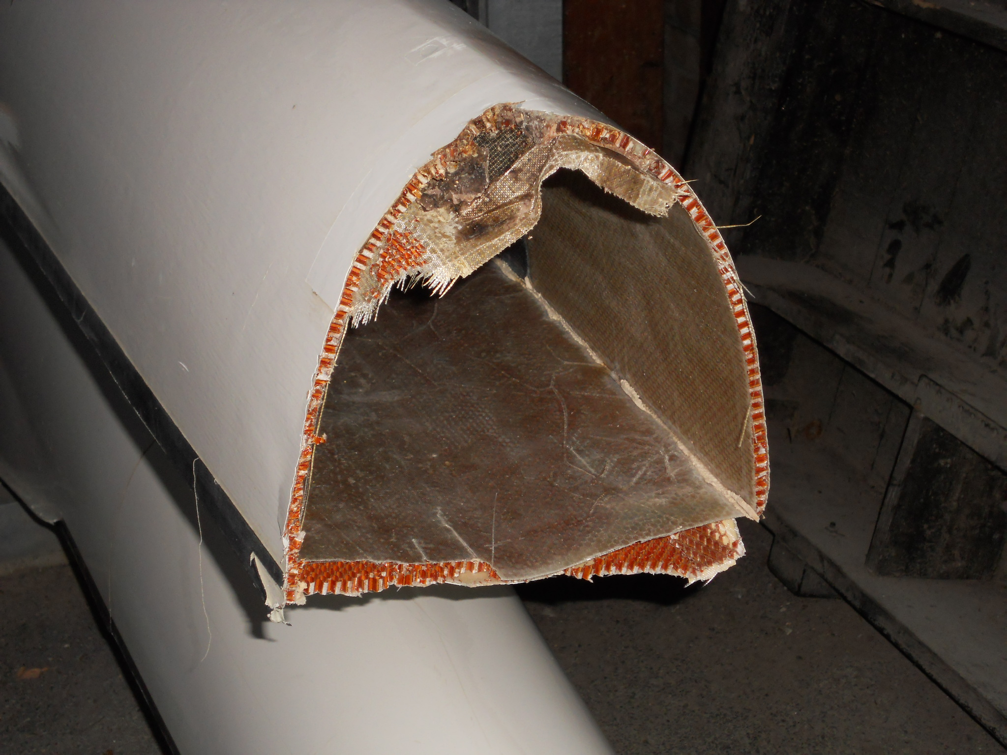 A rowing VIII (Harald, in fact, of New Hall) without its nose, showing the construction.